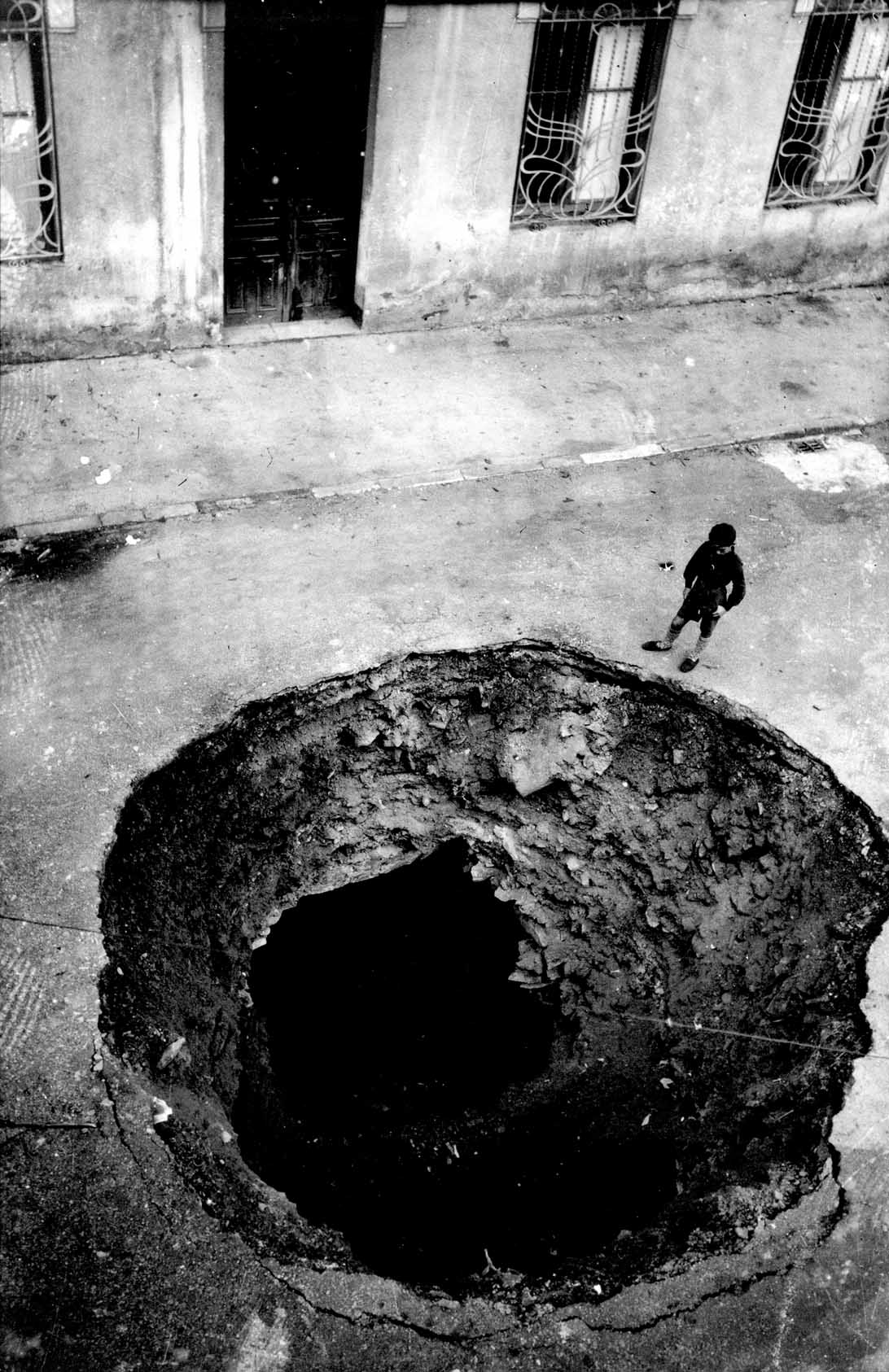 Bomb killed 60 in Eibar during Spanish Civil War. O'Donnell street, Eibar, Gipuzkoa, Basque Country.